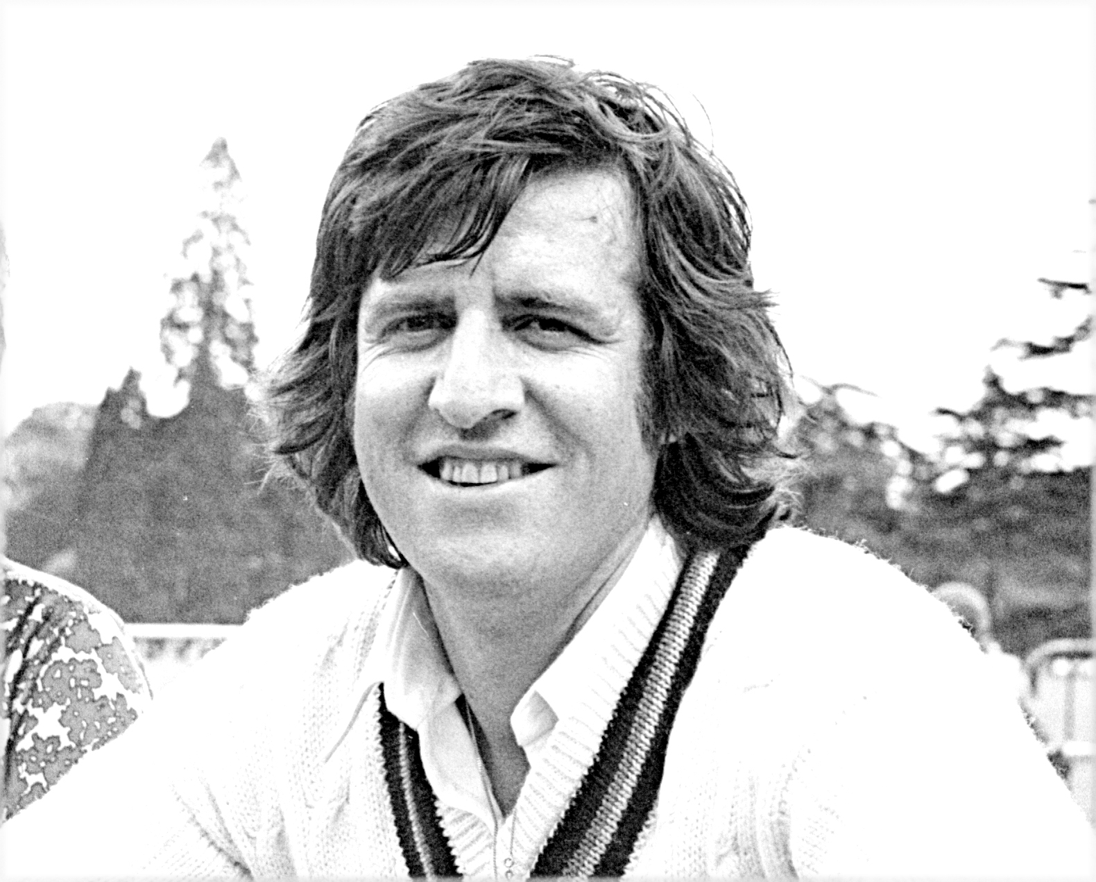 Taken at a charity cricket match in the grounds of Blenheim Palace, Oxfordshire